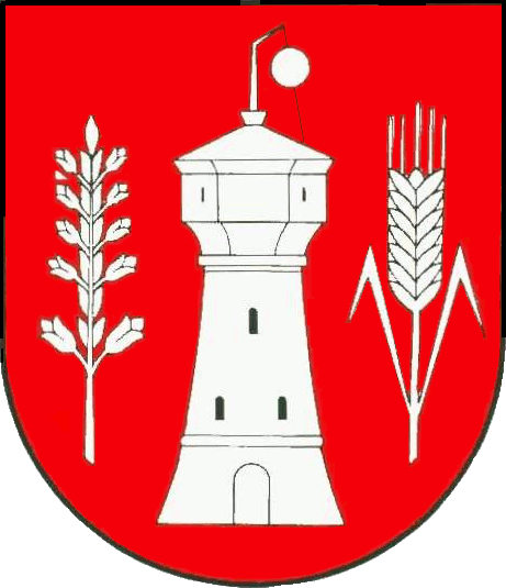 Coat of arms of the municipality Hohenlockstedt in Schleswig-Holstein, Germany.